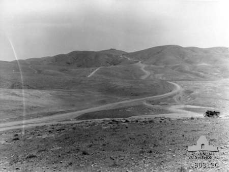 AWM caption : Ottoman Empire: Palestine. Jericho Road looking towards Talat Ed Dum. A Model T Ford is on the side road in the right foreground.